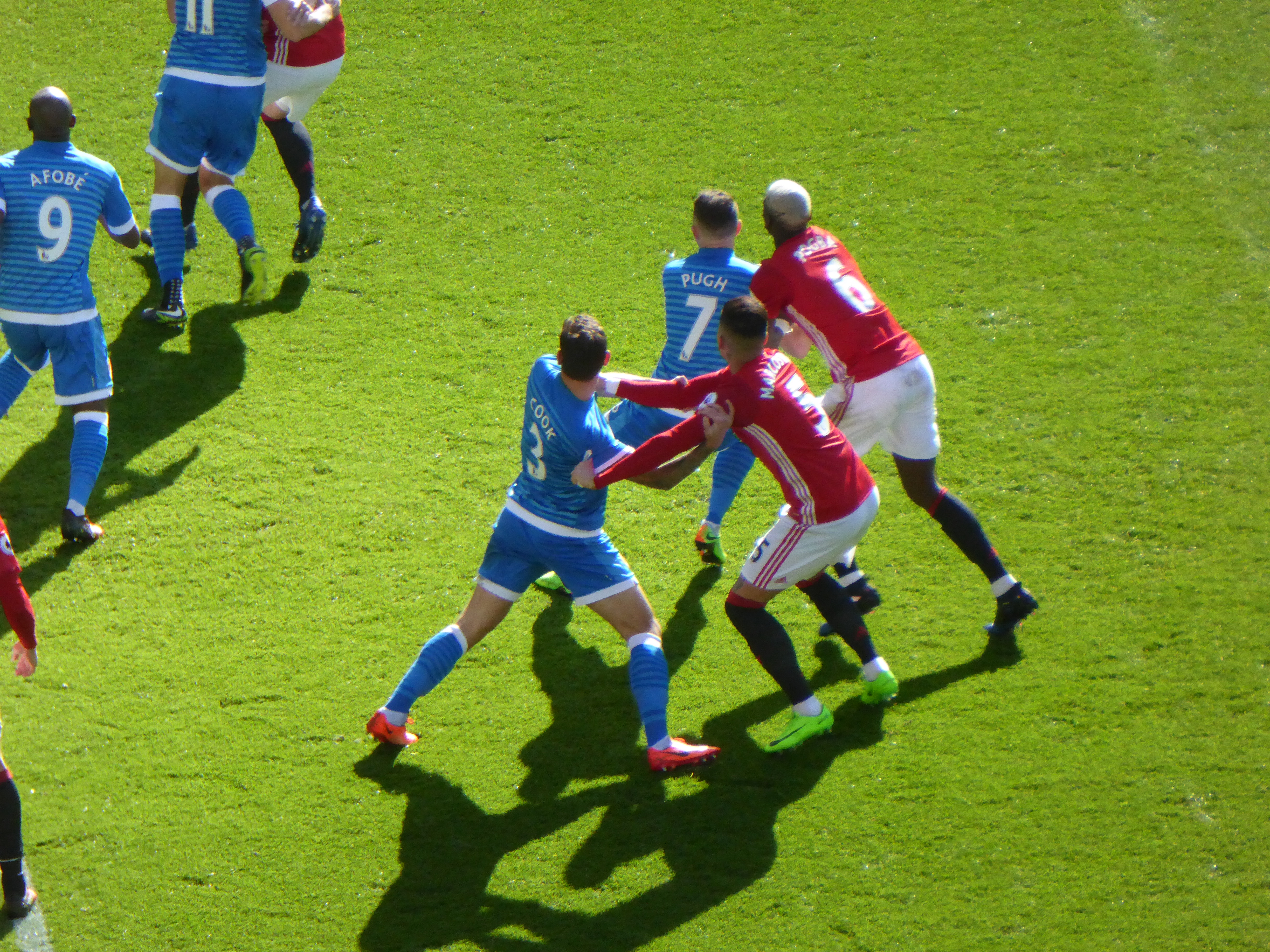 Manchester United v AFC Bournemouth (1-1), Premier League, Old Trafford, Manchester, 4 March 2017